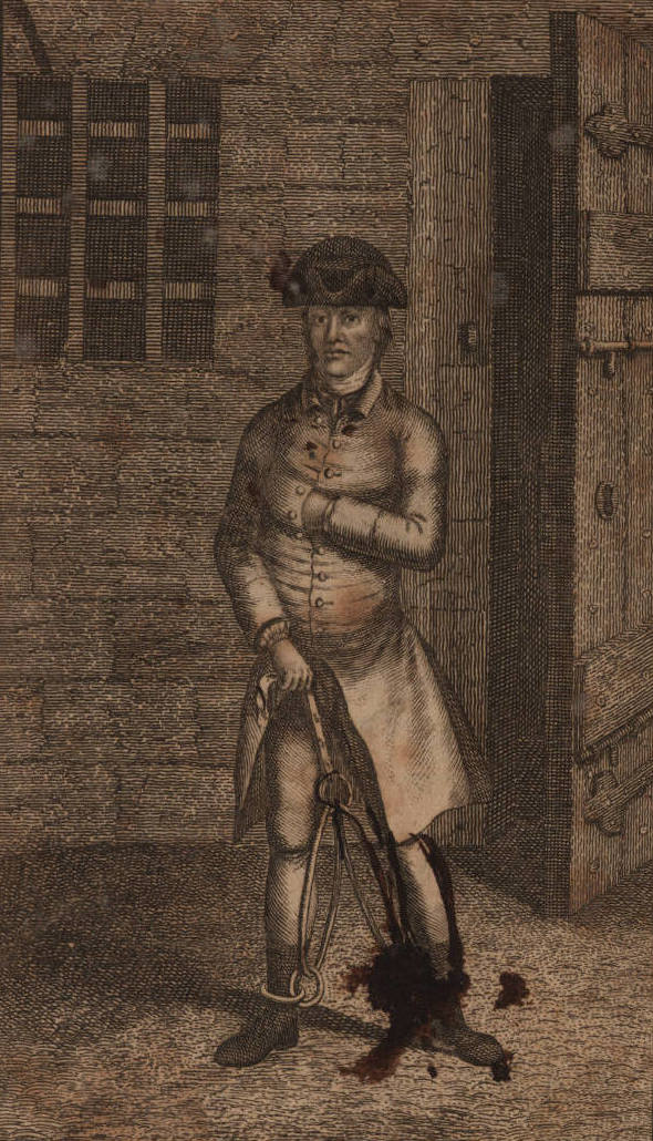 Frontispiece print from an engraved portrait of James Aitken, commonly called John Aitken and John the Painter, in chains in jail, by W. Cave ad viv del [W. Cave drew this from life]. Published by John Wilkes (printer) on March 22, 1777. JCB Archive of Early American Images, The John Carter Brown Library at Brown University. Note: An impassioned supporter of the American Revolution, James Aitken, also known by other names, wished to attack the British Navy by burning down royal navy yards in Portsmouth and Bristol. He was eventually captured and executed for his activities. Accession number: 07690 Record number: 07690-1 JCB call number: D777 A311l